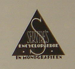 Servire's Encyclopaedie Logo